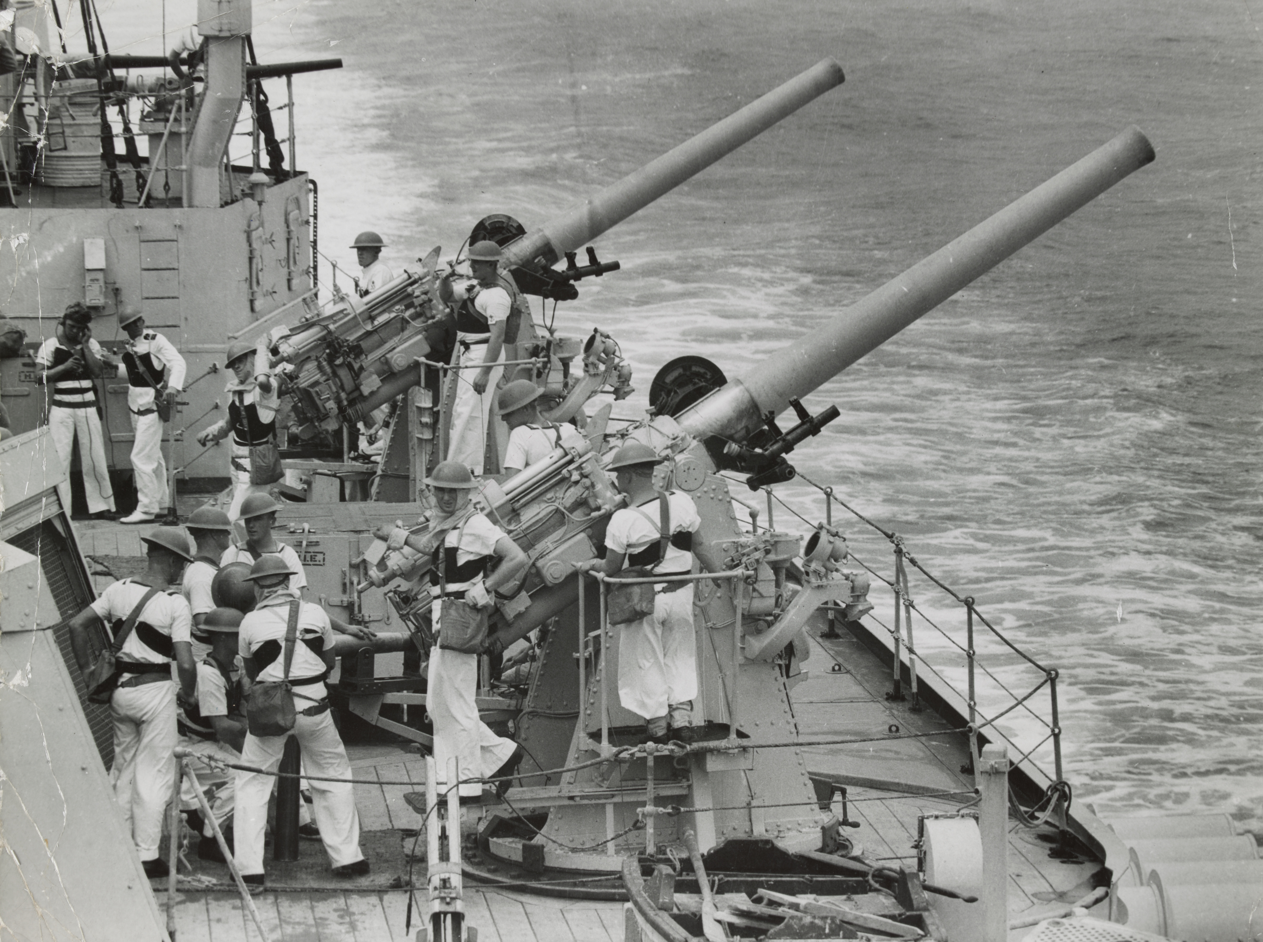 4 inch guns on HMAS Sydney. 3-pounder saluting guns also visible, which indicates photo was taken before July 1940 refit when these were removed